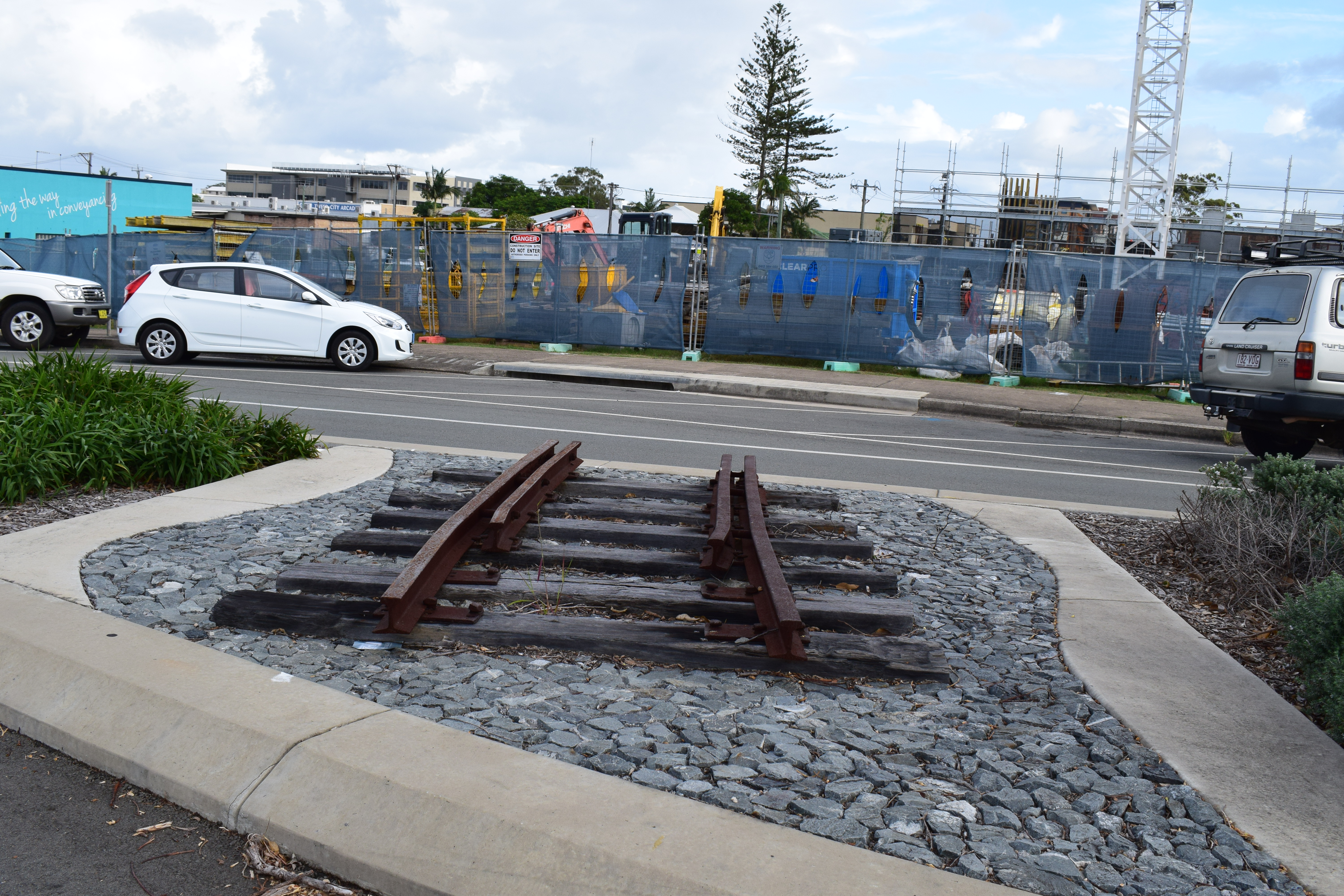 A preserved section of the South Coast Rail at Tweed Heads NSW, located on Bay Street between Thomson St and Enid St